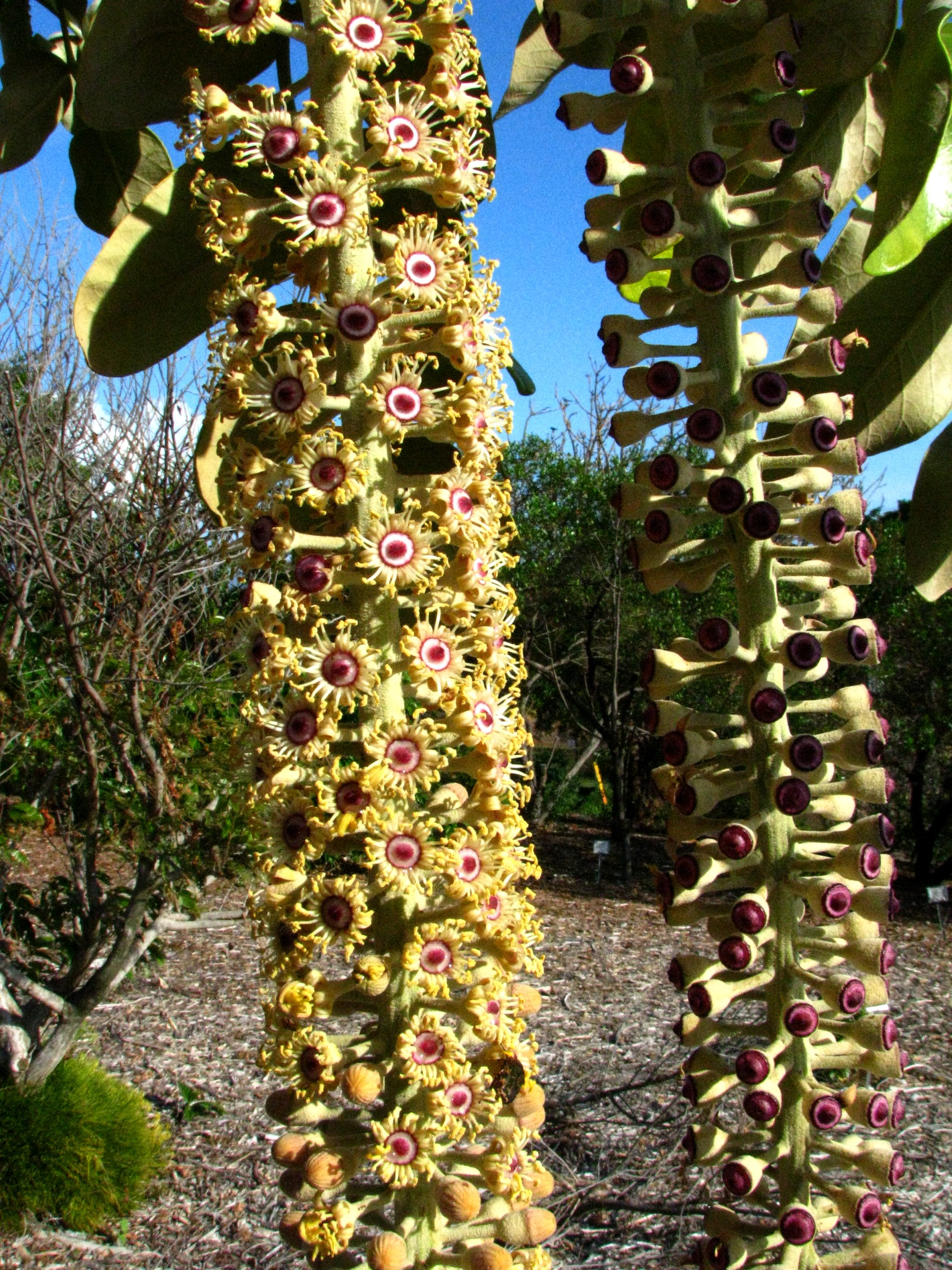 [syn. Munroidendron racemosum] Pōkalakala or Munroidendron Araliaceae Endemic to the Hawaiian Islands (Kauaʻi only) Oʻahu (Cultivated) Flowers & fruit maturing.